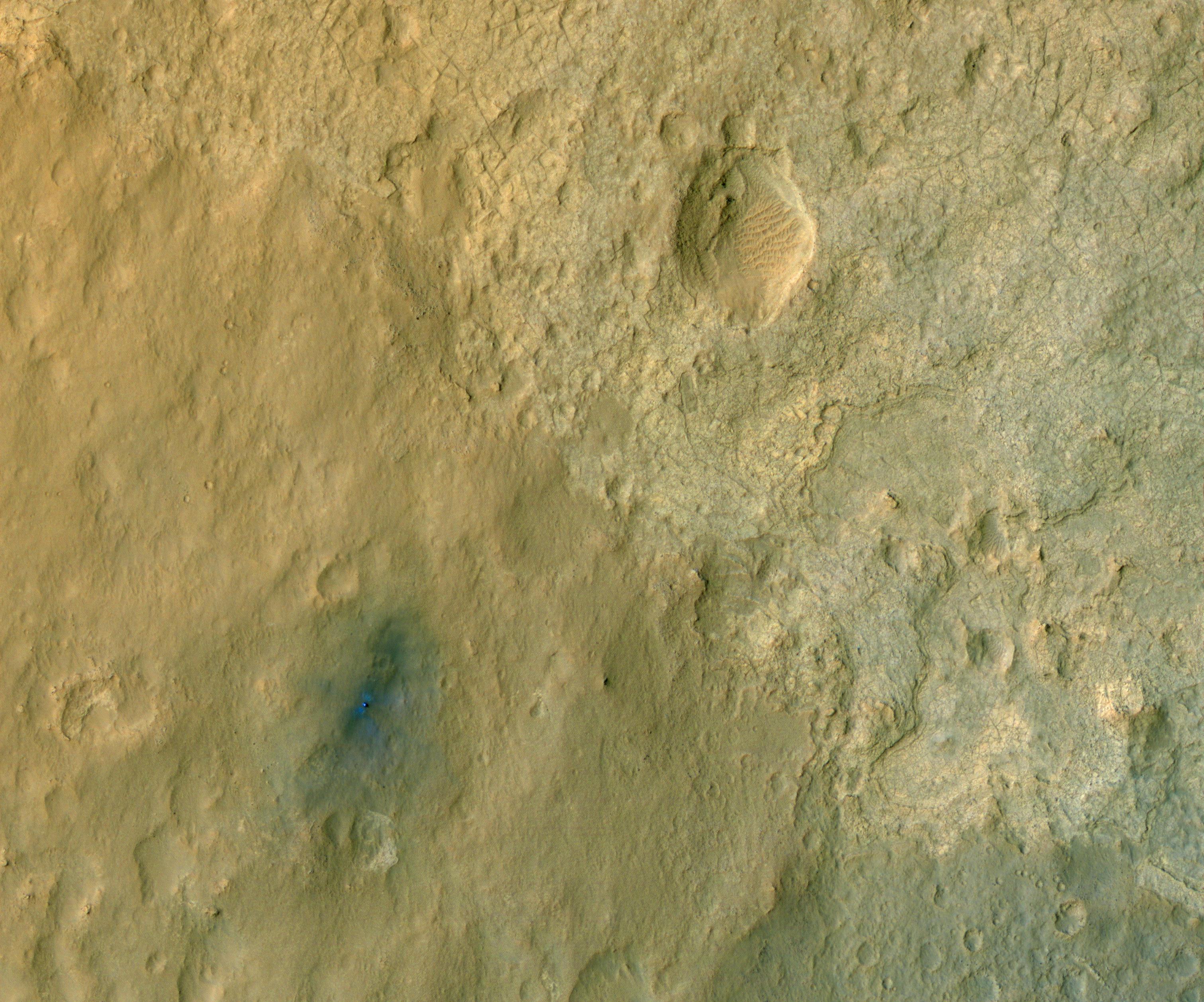 PIA16057: Curiosity in Exaggerated Color Target Name: Mars Is a satellite of: Sol (our sun) Mission: Mars Reconnaissance Orbiter (MRO) Mars Science Laboratory (MSL) Spacecraft: Curiosity Mars Reconnaissance Orbiter (MRO) Instrument: HiRISE Product Size: 3022 x 2515 pixels (width x height) Produced By: University of Arizona/HiRise-LPL Full-Res TIFF: PIA16057.tif (22.81 MB) Full-Res JPEG: PIA16057.jpg (1.151 MB) Click on the image above to download a moderately sized image in JPEG format (possibly reduced in size from original) Original Caption Released with Image: This color-enhanced view of NASA's Curiosity rover on the surface of Mars was taken by the High Resolution Imaging Science Experiment (HiRISE) on NASA's Mars Reconnaissance Orbiter as the satellite flew overhead. Colors have been enhanced to show the subtle color variations near the rover, which result from different types of materials. The descent stage blast pattern around the rover is clearly seen as relatively blue colors (true colors would be more gray). Curiosity landed within Gale Crater, a portion of which is pictured here. The mountain at the center of the crater, called Mount Sharp, is located out of frame to the southeast. North is up. This image was acquired at an angle of 30 degrees from straight down, looking west. Another image looking more directly down will be acquired in five days, completing a stereo pair along with this image. The scale of this image cutout is about 12 inches (31 centimeters) per pixel. HiRISE is one of six instruments on NASA's Mars Reconnaissance Orbiter. The University of Arizona, Tucson, operates the orbiter's HiRISE camera, which was built by Ball Aerospace & Technologies Corp., Boulder, Colo. NASA's Jet Propulsion Laboratory, a division of the California Institute of Technology in Pasadena, manages the Mars Reconnaissance Orbiter Project for NASA's Science Mission Directorate, Washington. Lockheed Martin Space Systems, Denver, built the spacecraft.